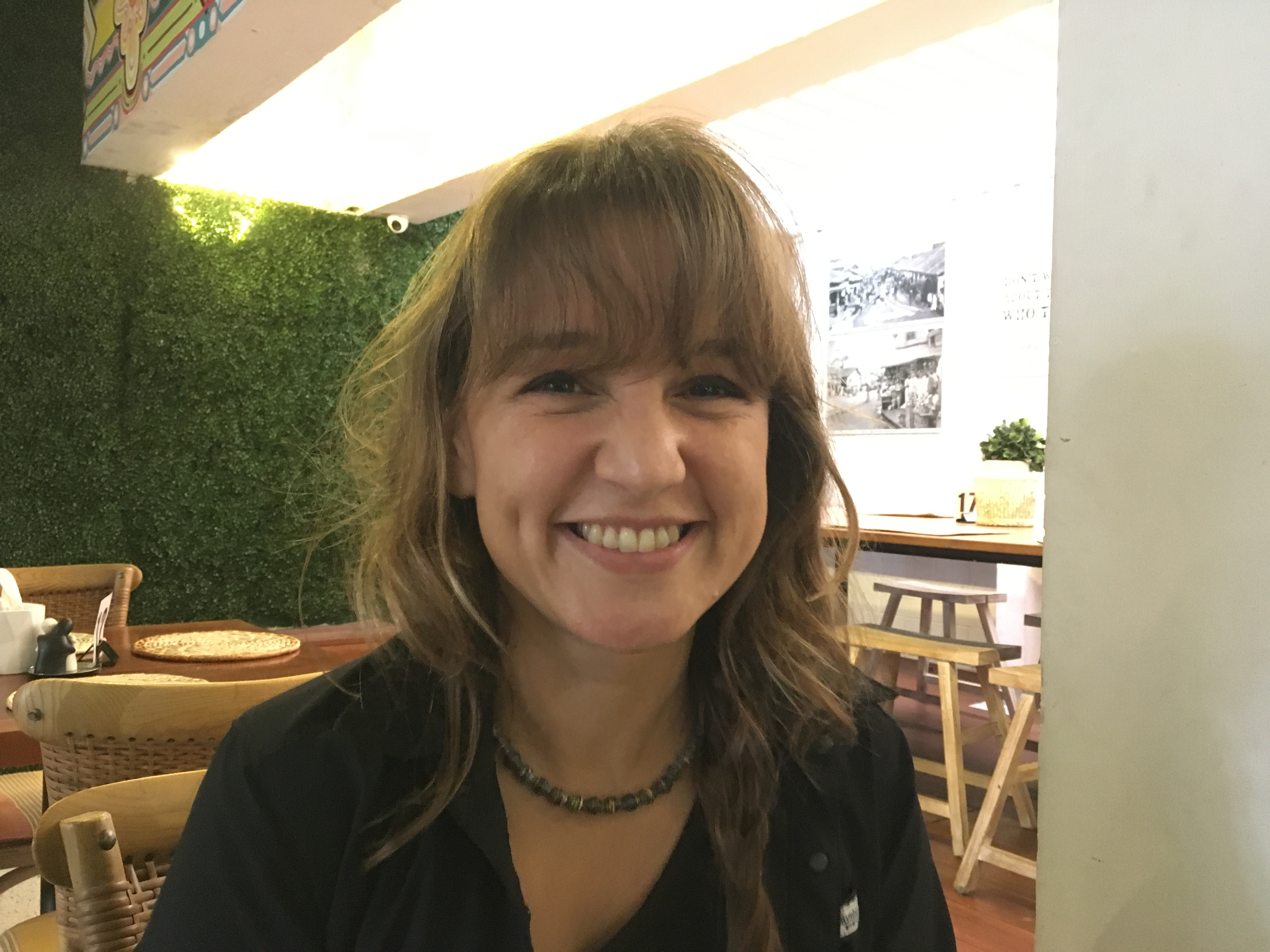 Zeynep Tufekci in 2019 in Sri Lanka